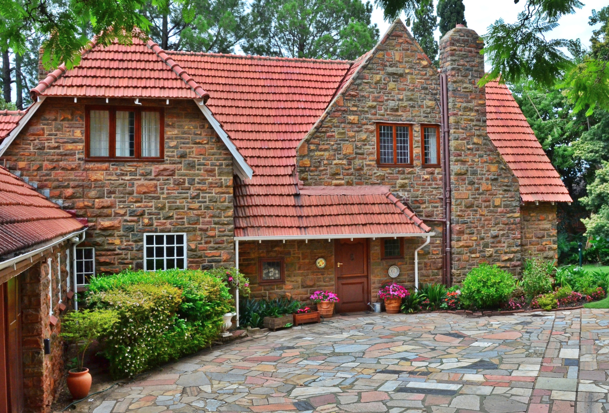 South African architect, Gerard Moerdyk, designed and lived in this house from 1924 to 1955.